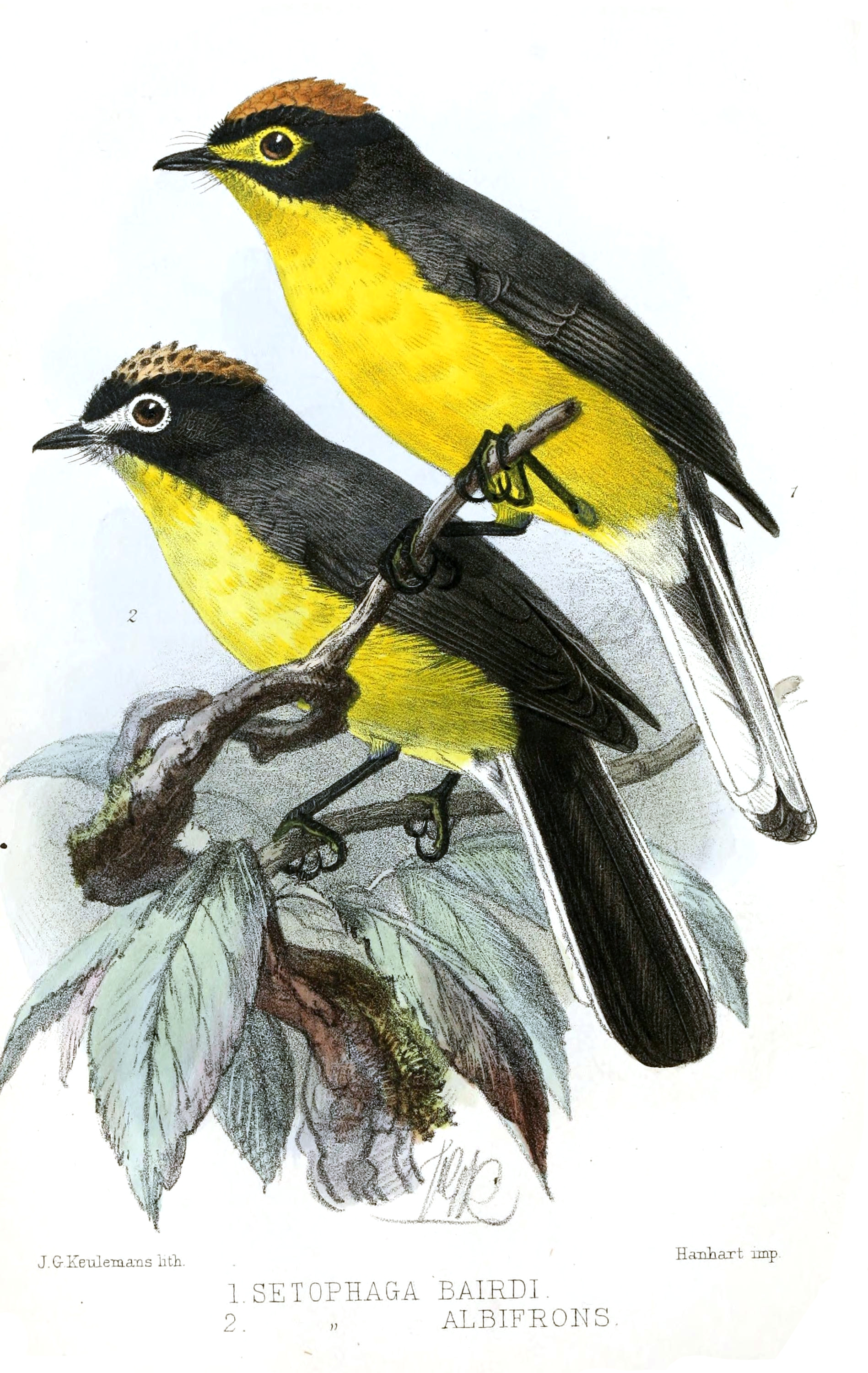 « Setophaga bairdi » = Myioborus melanocephalus ruficoronatus (Subspecies of Spectacled Whitestart) « Setophaga albifrons » = Myioborus albifrons (White-fronted Whitestart)